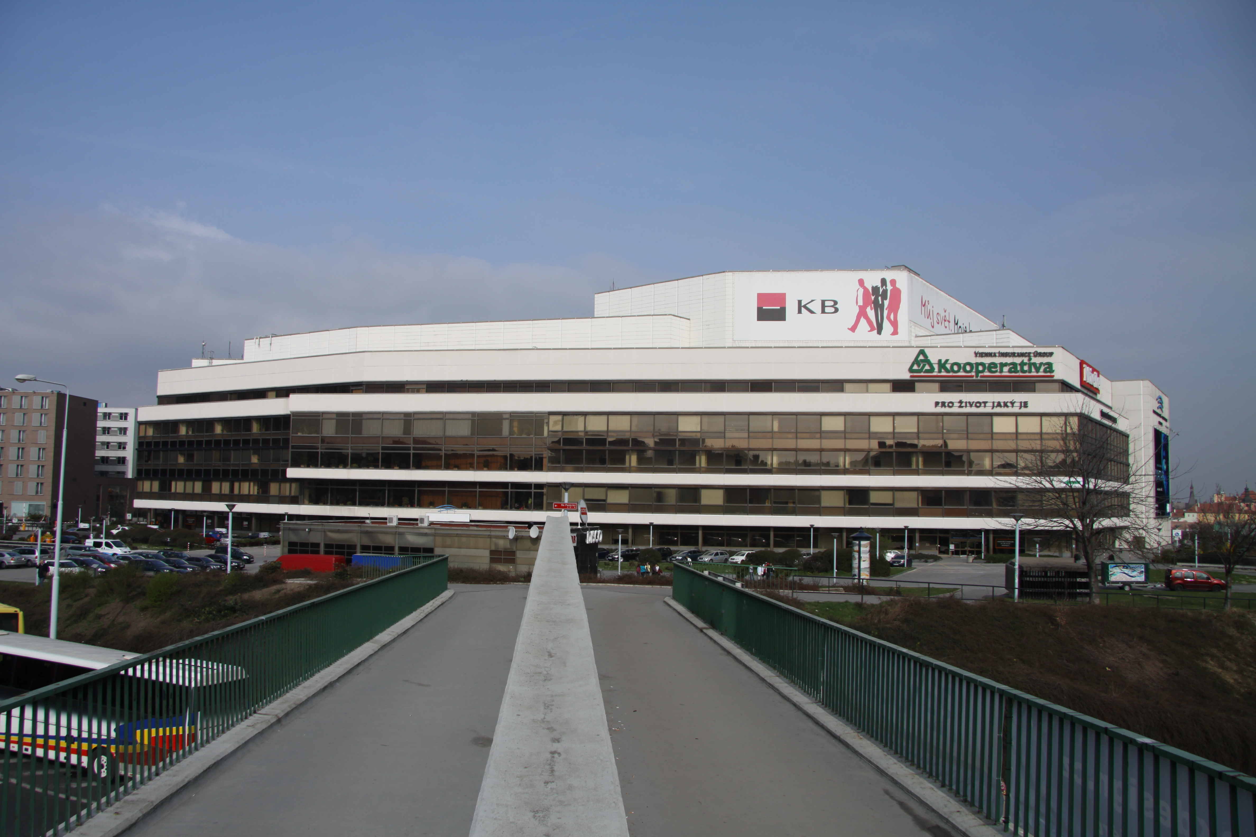 Prague Congress Centre, Vyšehrad, Prague, Czech Republic